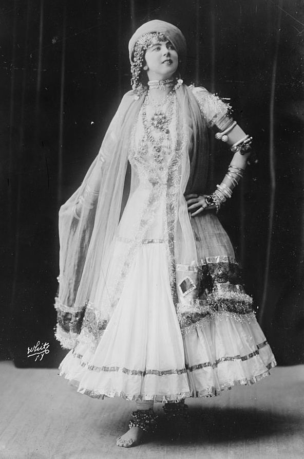 American dancer Ruth St. Denis (1879-1968)